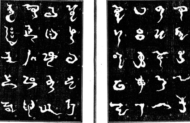 Ahiru kusa characters (Satsuma old characters)